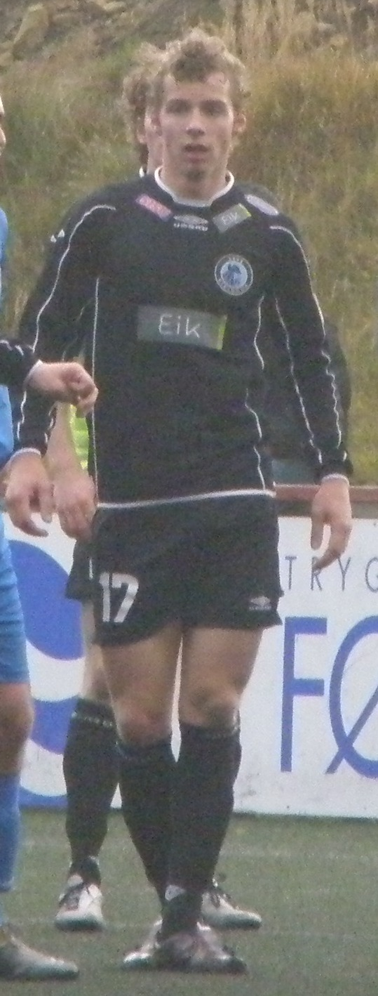 Faroese footballer Finnur Justinussen while playing for Víkingur in 2010, in the Faroese top-tier league, then officially called the Vodafonedeildin. Justinussen plays as an attacker. This photo was taken in Vágur at Eiðinum Stadium in the match between FC Suðuroy and Víkingur Gøta in Vodafonedeildin. Víkingur Gøta won the match 2-0. Justinussen scored the first goal after 15 minutes. Føroyskt: Finnur Justinussen er føroyskur fótbóltsleikari, áleypsleikari. Hann spælir við Víkingi og fyri Føroyar U21.